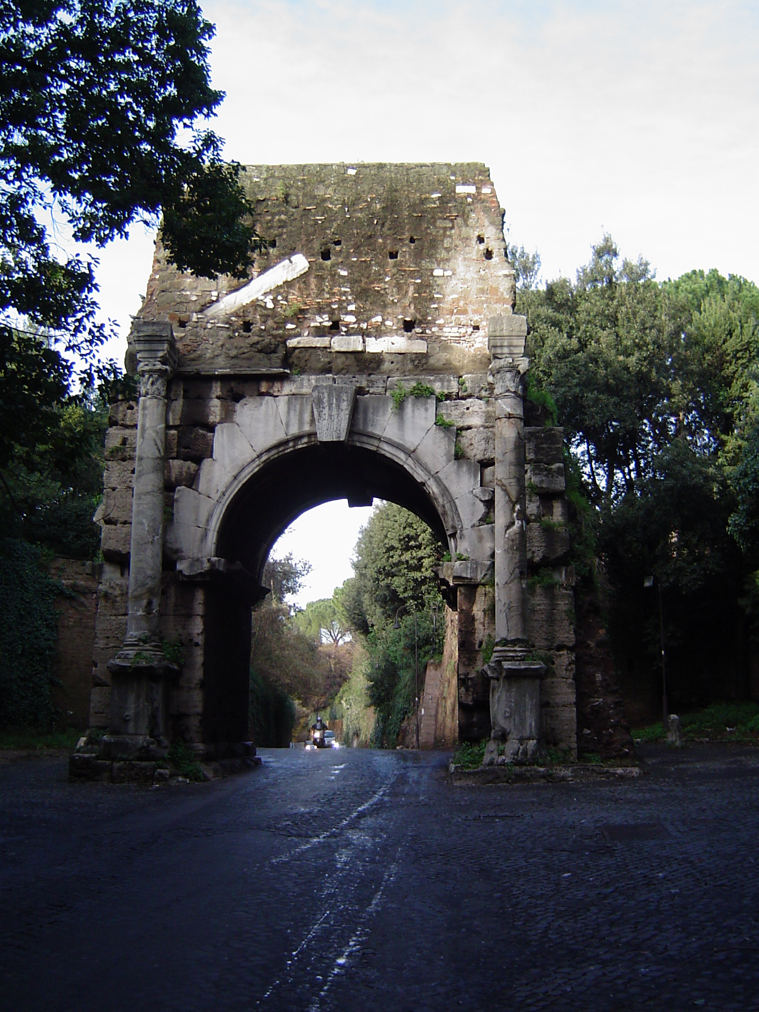 Arch of Drusus, Rome, Italy Made by Joris van Rooden, the Netherlands on 03-01-2006